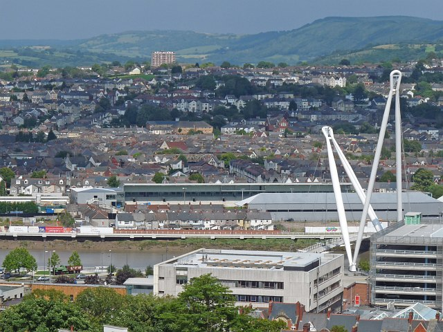 The view to the north-east from Newport Cathedral, near to Newport/Casnewydd, Great Britain.